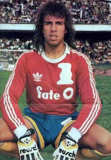 Former goalkeeper Carlos Navarro Montoya, during his first year in Boca Juniors, where he played until 1996.